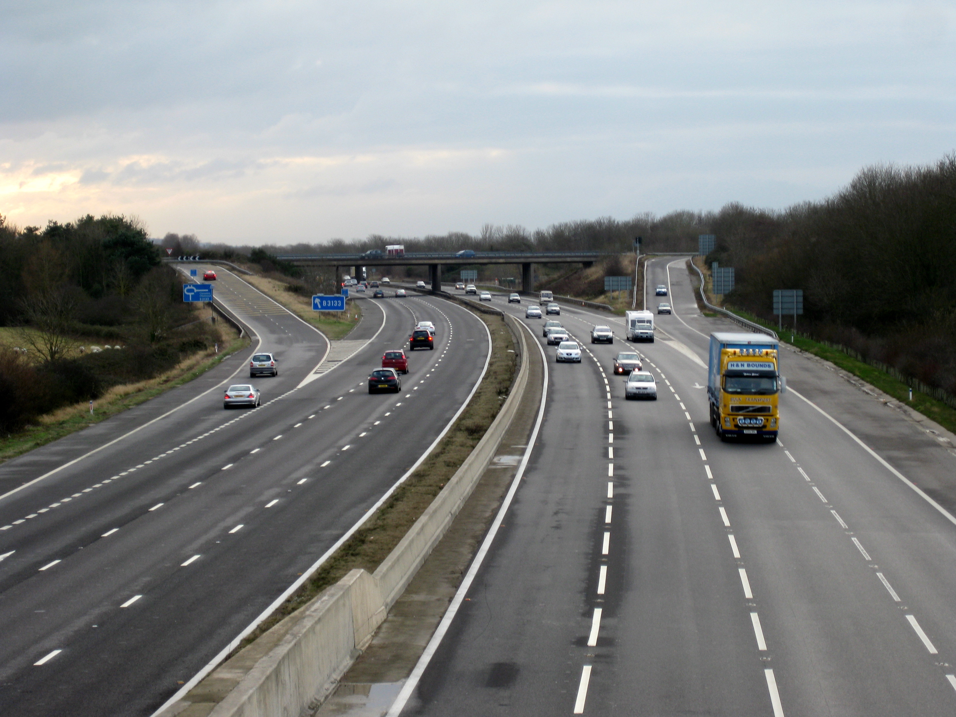 Junction 20 (near Clevedon) on the M5 motorway, seen from the north